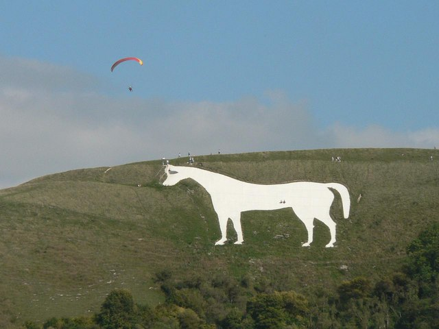 Paragliding above Westbury White Horse This paraglider is making the most of a super Bank Holiday Monday, while two people climbing the horse's back give an impression of scale.